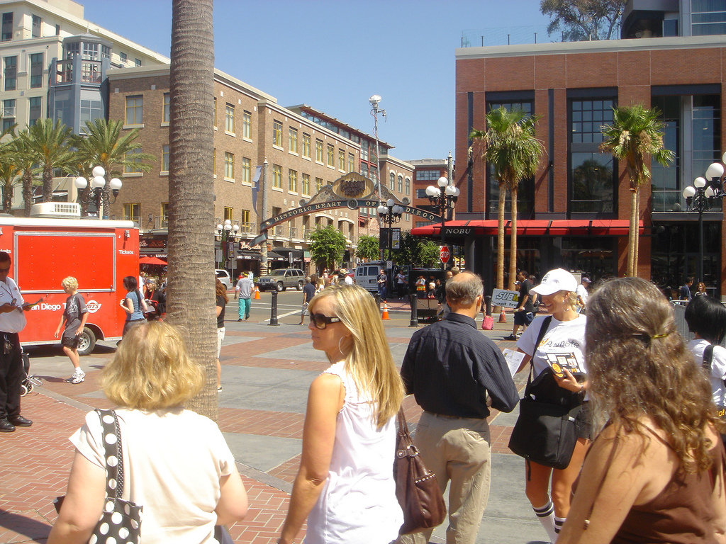 Description: Entrance to the San Diego Gaslamp Quarter, historic heart of San Diego, from the Gaslamp Quarter trolley station. Date Created: Thursday, July 24, 2008, 10:46 AM Location: Gaslamp Quarter, San Diego, California Event: Comic-Con International: San Diego, Day 1.